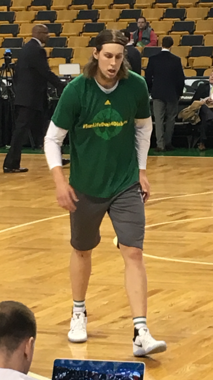 Olynyk with the Celtics on 12/2/16